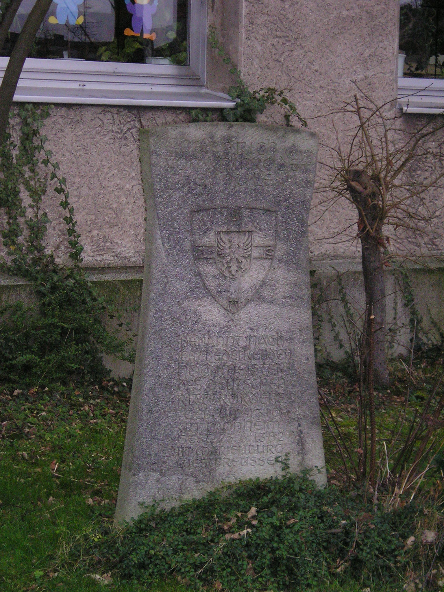 Cenotaph of Winrich von Kniprode